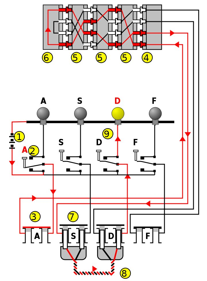 To explain the Enigma, we use this wiring diagram. To simplify the example, only four components of each are shown. In reality, there are 26 lamps, keys, plugs and wirings inside the rotors. The current flows from the battery (1) through the depressed bi-directional letter-switch (2) to the plugboard (3). The plugboard allows rewiring the connections between keyboard (2) and fixed entry wheel (4). Next, the current proceeds through the—unused, so closed—plug (3) via the entry wheel (4) through the wirings of the three (Wehrmacht Enigma) or four (Kriegsmarine M4 or Abwehr variant) rotors (5) and enters the reflector (6). The reflector returns the current, via a different path, back through the rotors (5) and entry wheel (4), and proceeds through plug 'S' connected with a cable (8) to plug 'D', and another bi-directional switch (9) to light-up the lamp. Copied from Wikipedia:Enigma machine